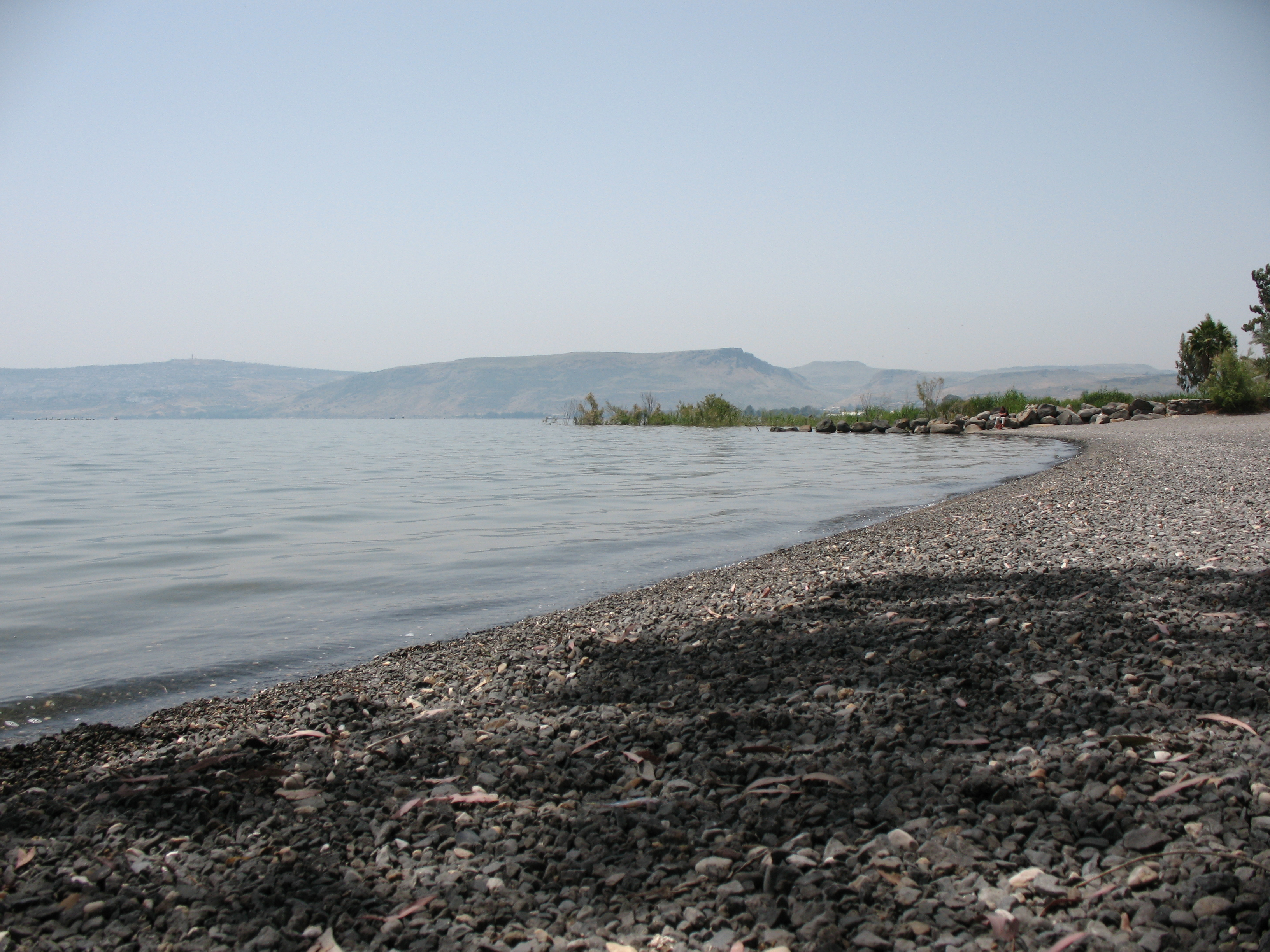 Sea of Galilee